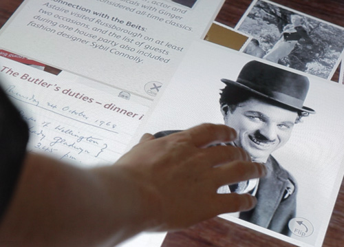 Touch-screen in the interactive Exhibition in Russborough House